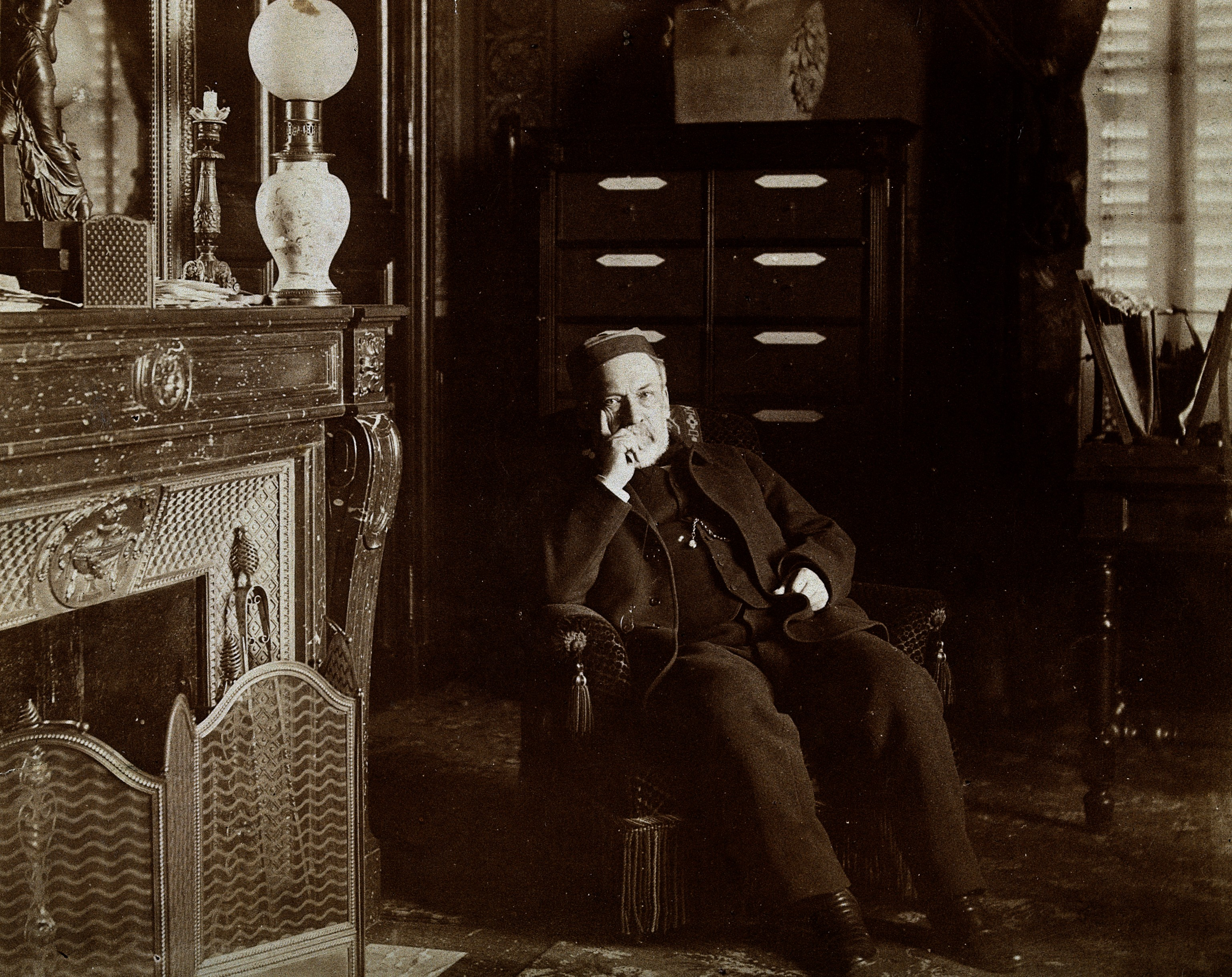 Louis Pasteur [1822 - 1895], French microbiologist and chemist in his sitting room Iconographic Collections Keywords: portrait photographs; Dornac et Cie